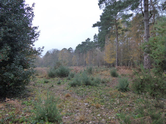 Shepperlands Farm is a nature reserve near Finchampstead in Berkshire. It is managed by the Berkshire, Buckinghamshire and Oxfordshire Wildlife Trust.